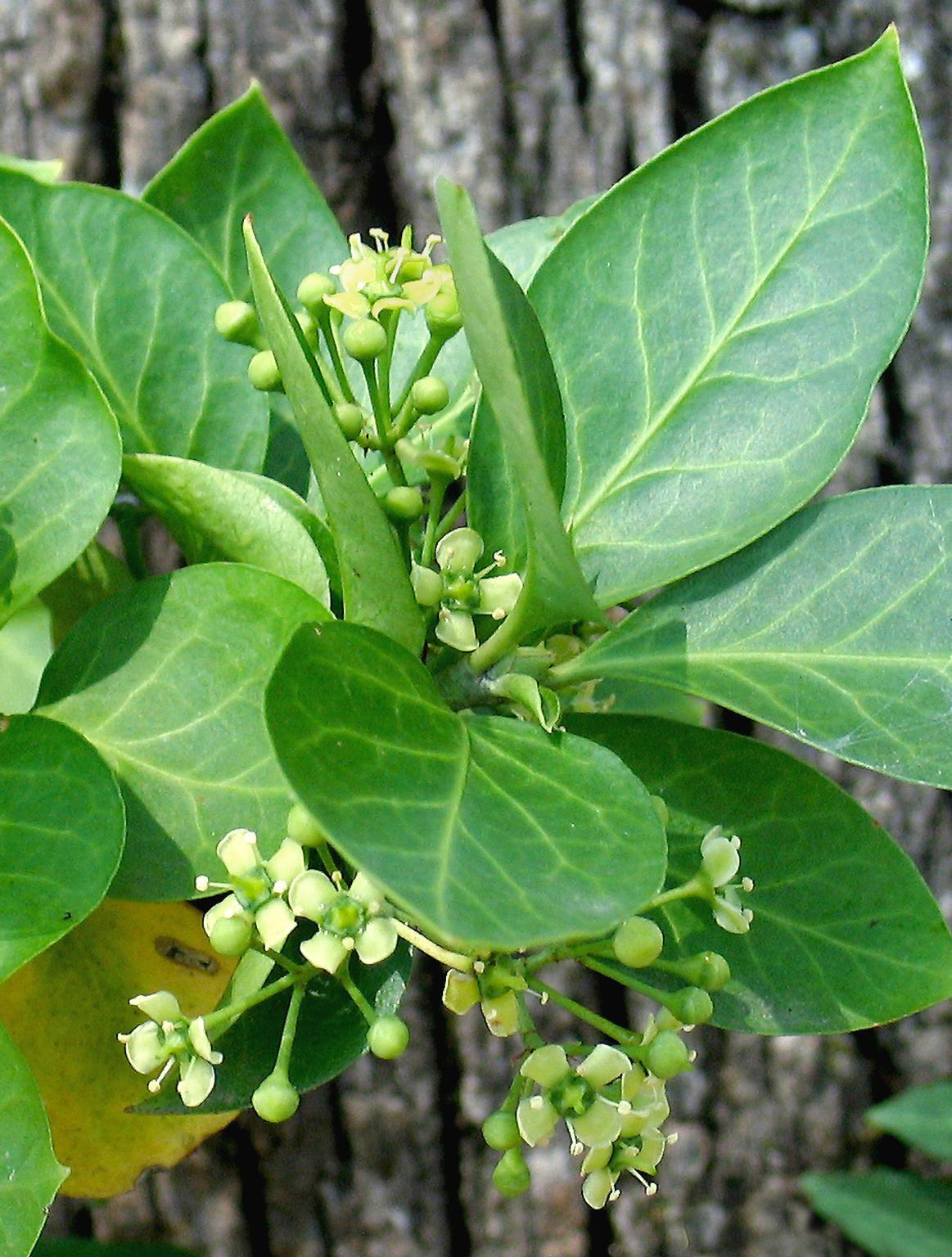 winter creeper Euonymus fortunei (Turcz.) Hand.-Maz. Descriptor: Flower(s) Description: In August Image type: Field Image location: United States